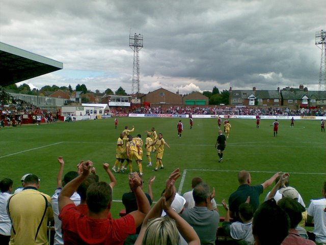 Rushden fans and players celebrate after Smith equalises against Kettering.